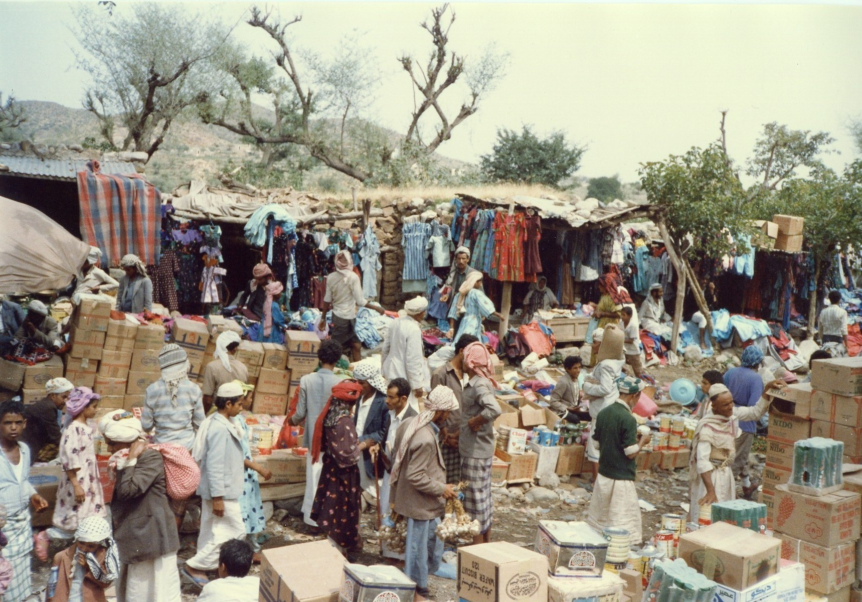 Wadi Zabad market near Ta'izz, Yemen